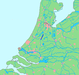 Location of a waterway (river/canal) in the Netherlends